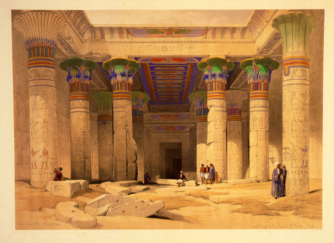 Picture of a print from David Roberts' Egypt & Nubia, issued between 1845 and 1849.